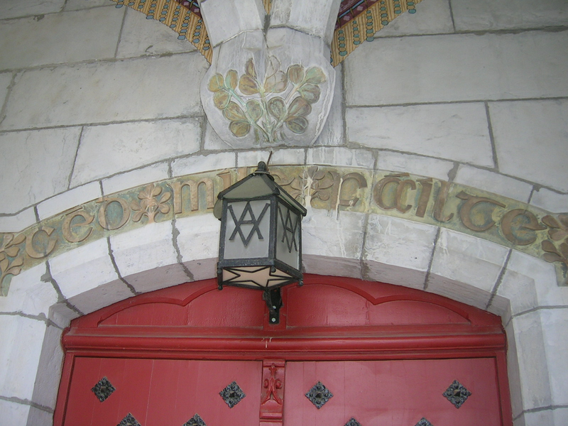 Irish inscription in the façade of Abbadia castle, Hendaye (France)